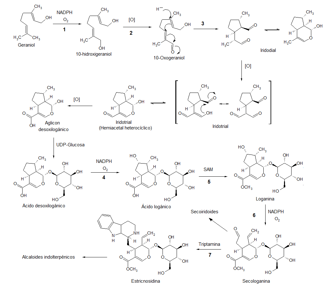 Iridoids biosynthesis